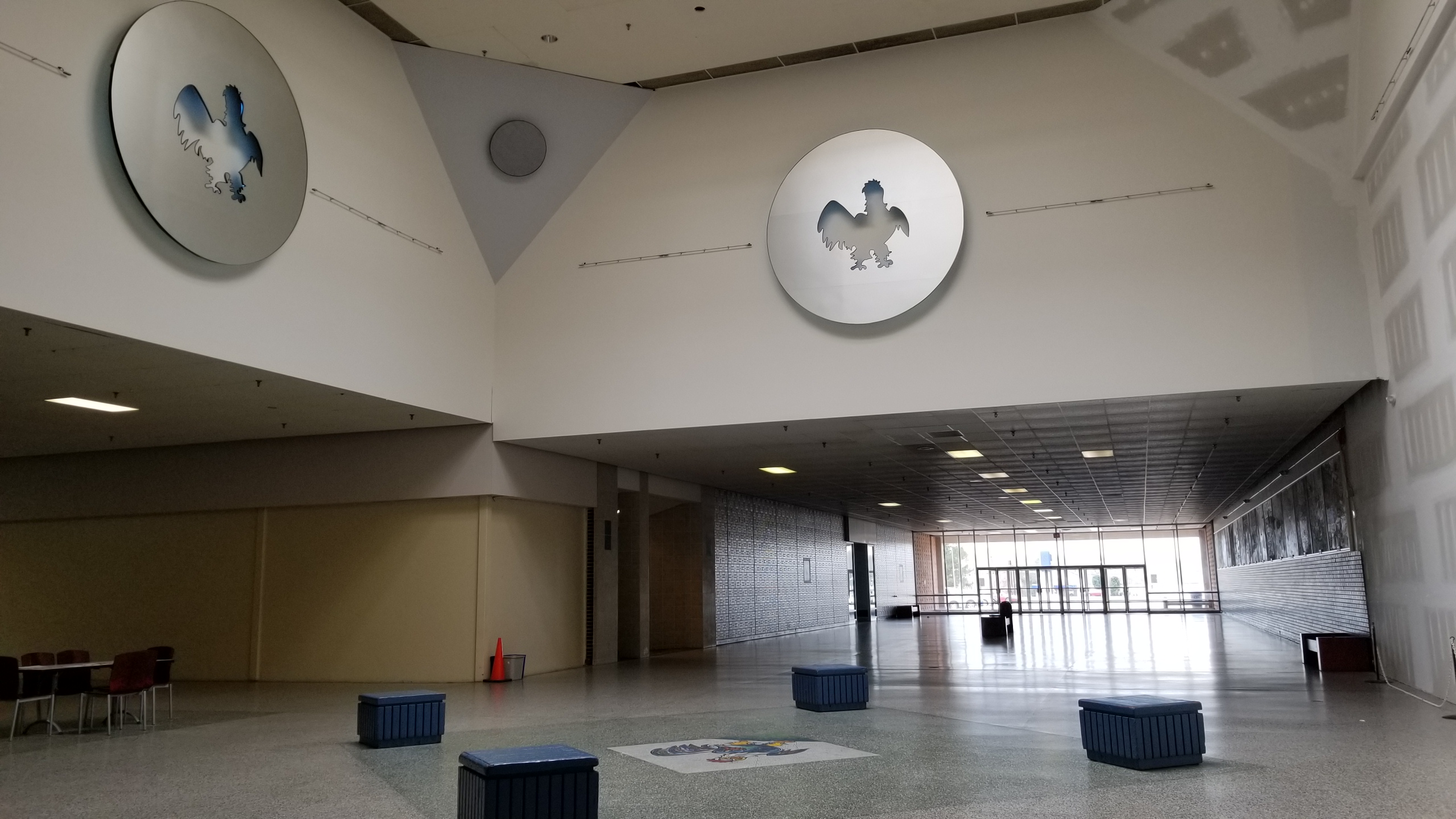 Blue Hen Mall, Dover, Delaware